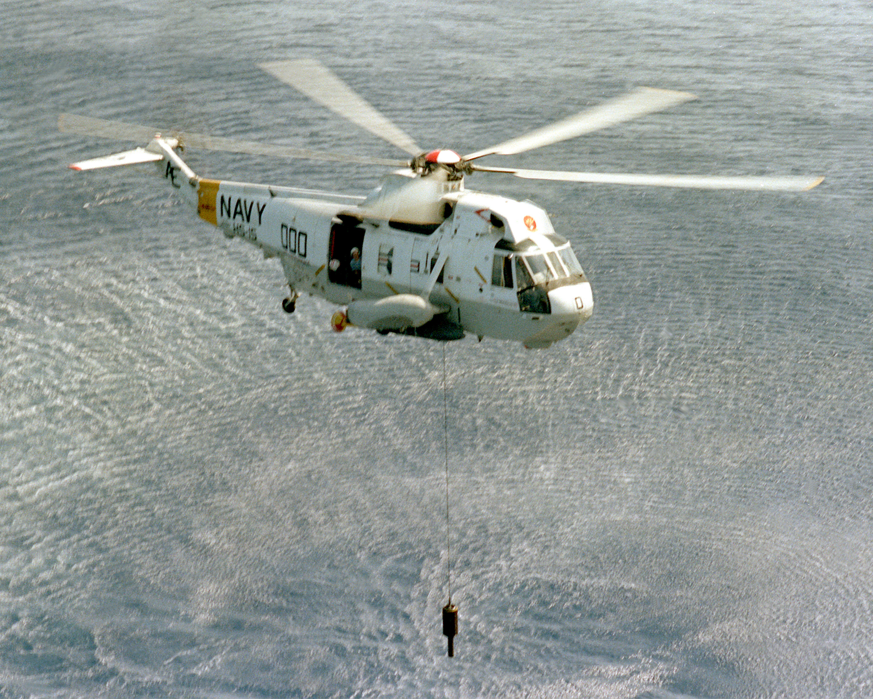 A U.S. Navy Sikorsky SH-3H Sea King helicopter from Helicopter Antisubmarine Squadron 15 (HS-15) Red Lions lowers its AN/AQS-13 sonar. HS-15 was assigned to Carrier Air Wing 6 (CVW-6) aboard the aircraft carrier USS Independence (CV-62) for a deployment to the Mediteranean Sea from 28 June to 14 December 1979.